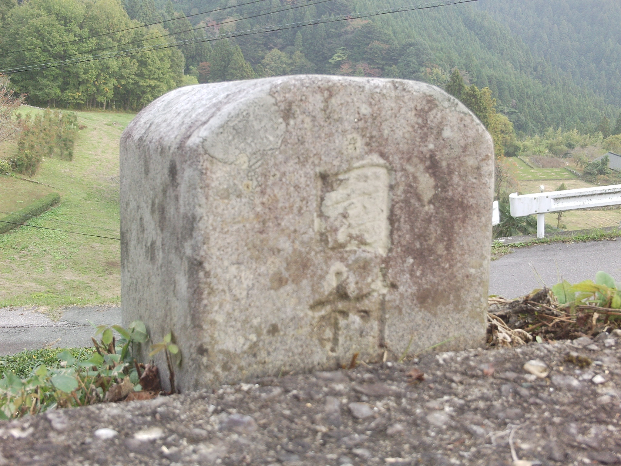 Kilometre zero of Sono village. (Sono village, Kitashitara-gun, Aichi.)